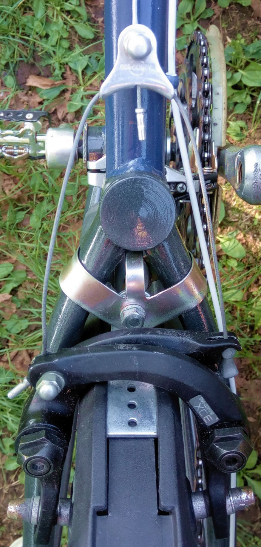 Modern U-Brake